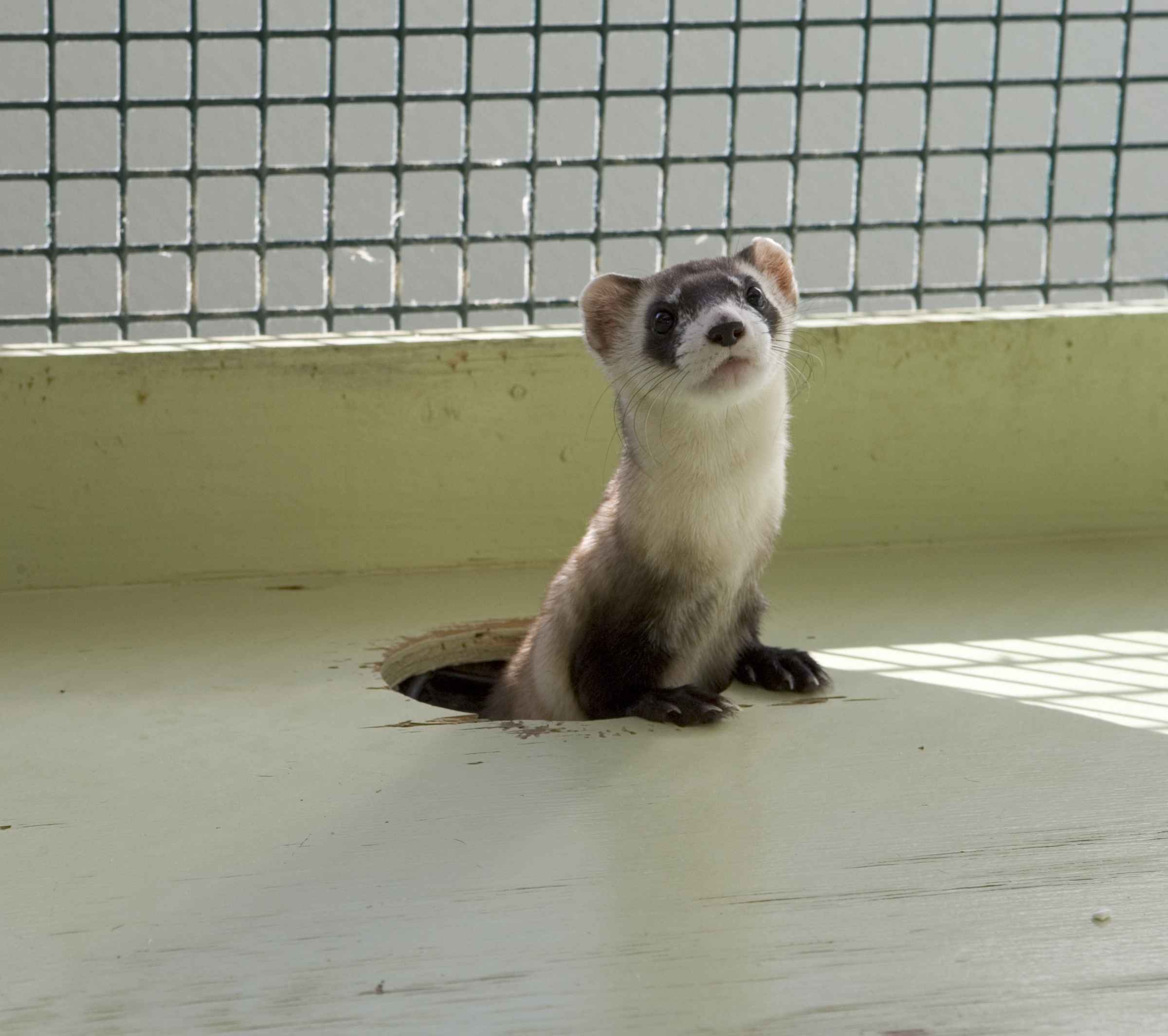 Image title: Mustela nigripes black footed ferret in cage Image from Public domain images website